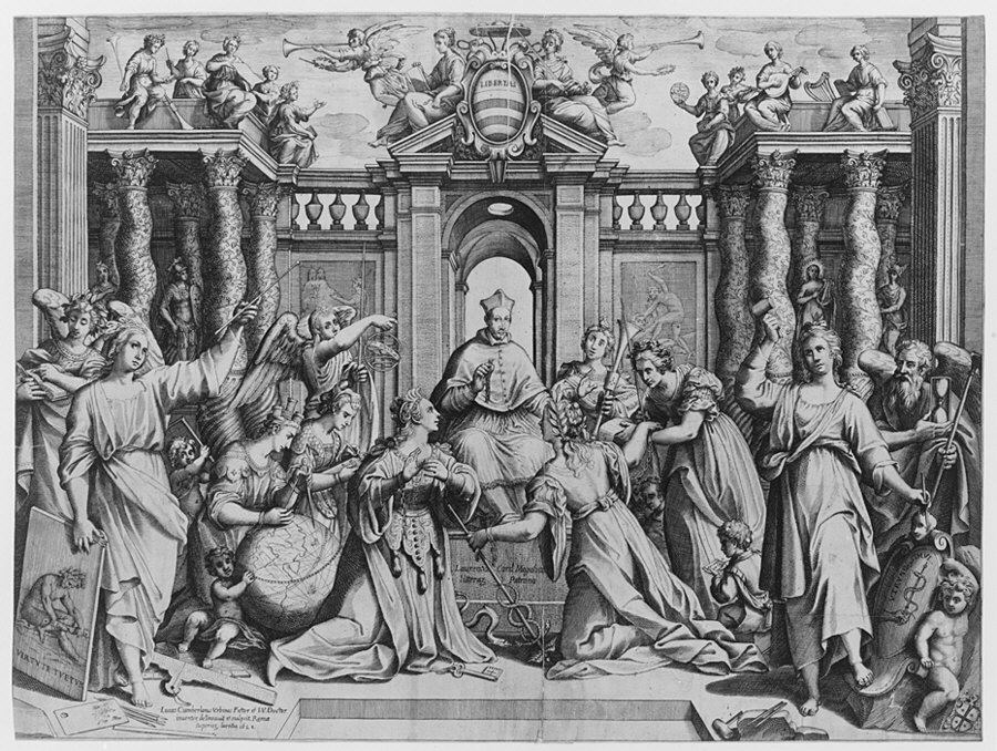 Print; Prints